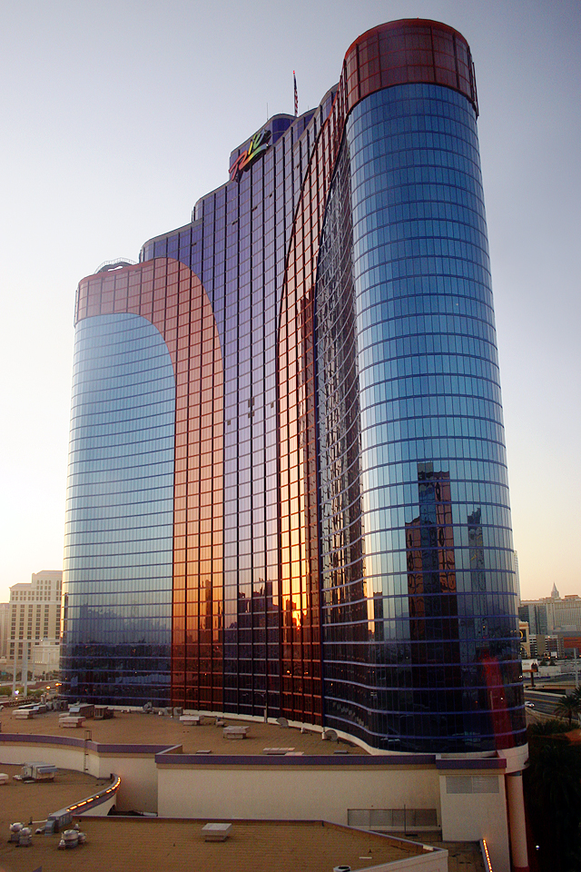 United States of America West Coast Trip 2012